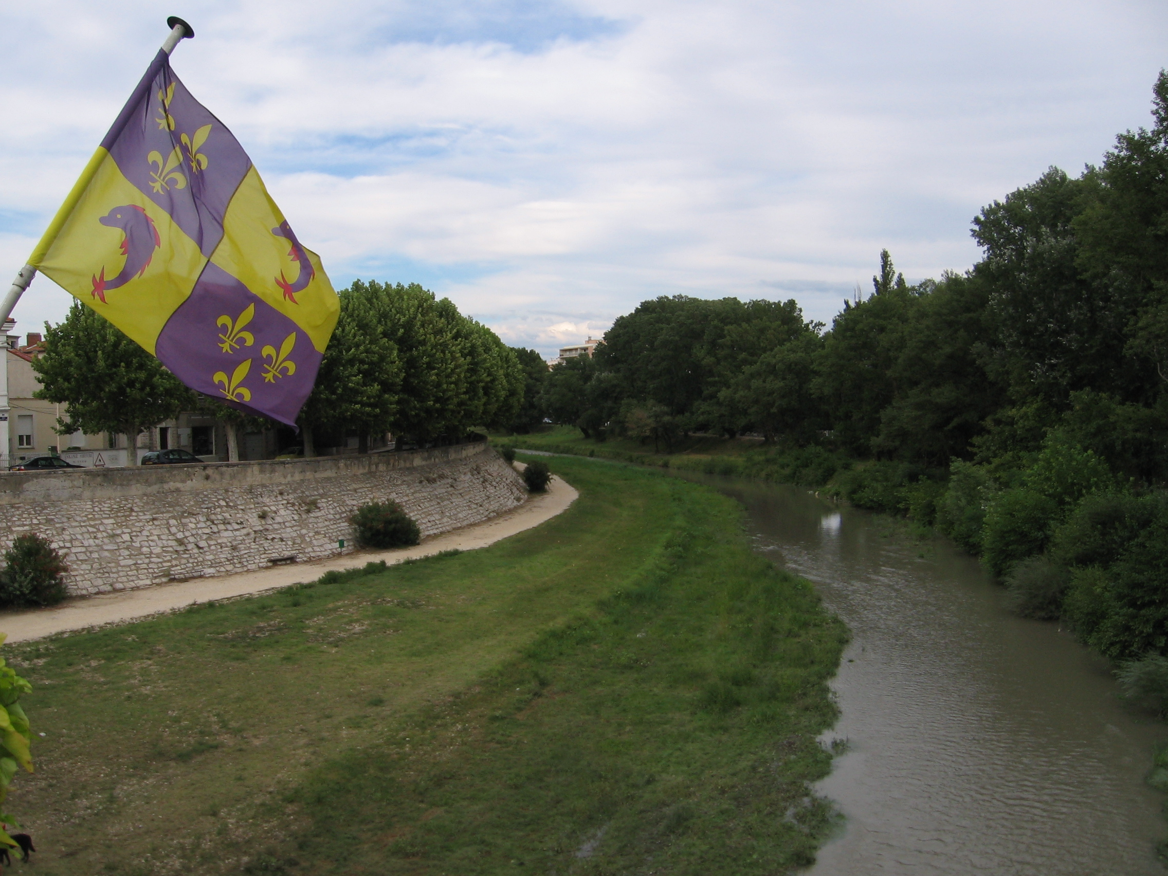 View Roubion river in Montelimar, France